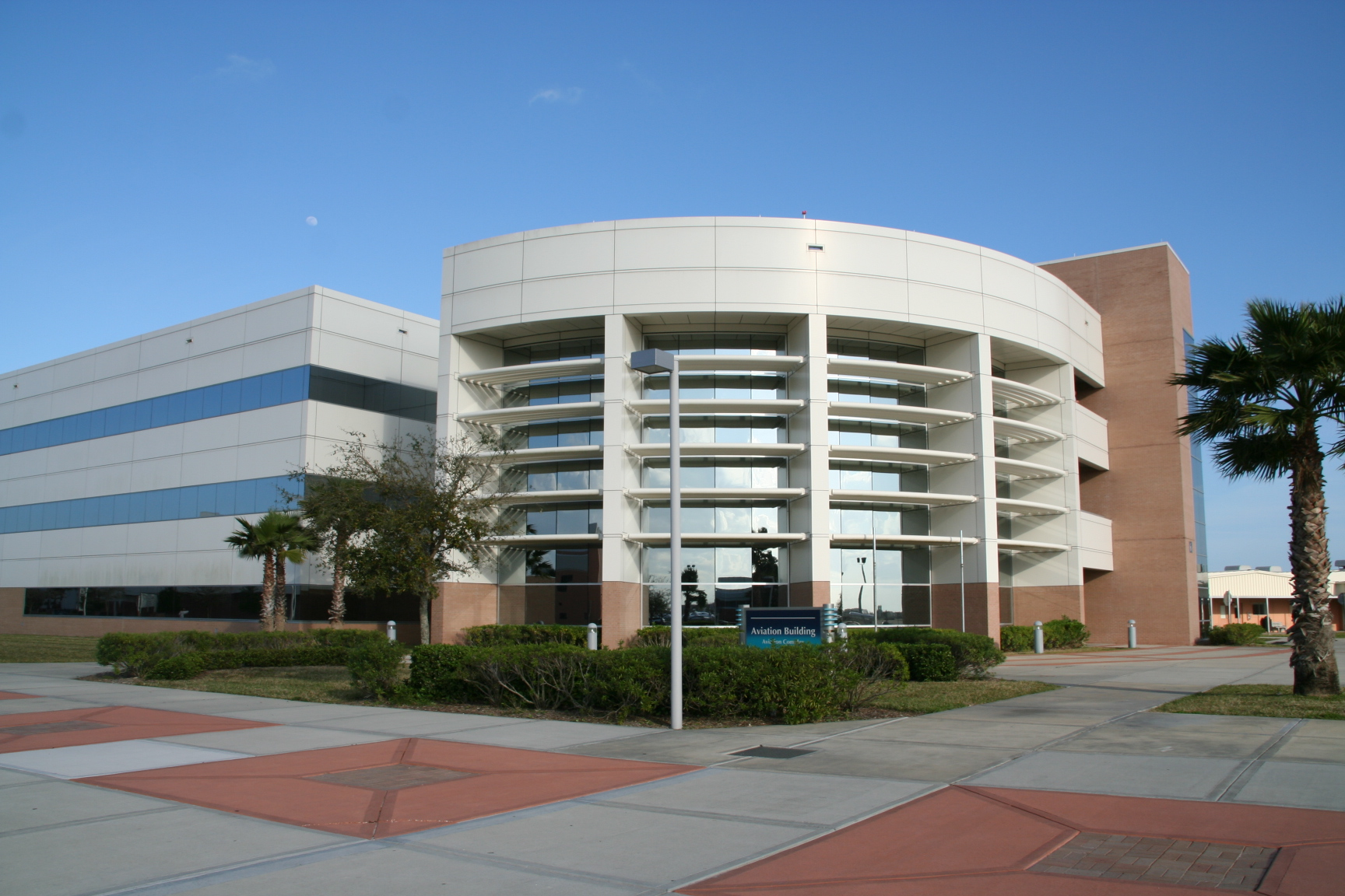 Embry-Riddle-COA(College of Aviation) Daytona Beach campus